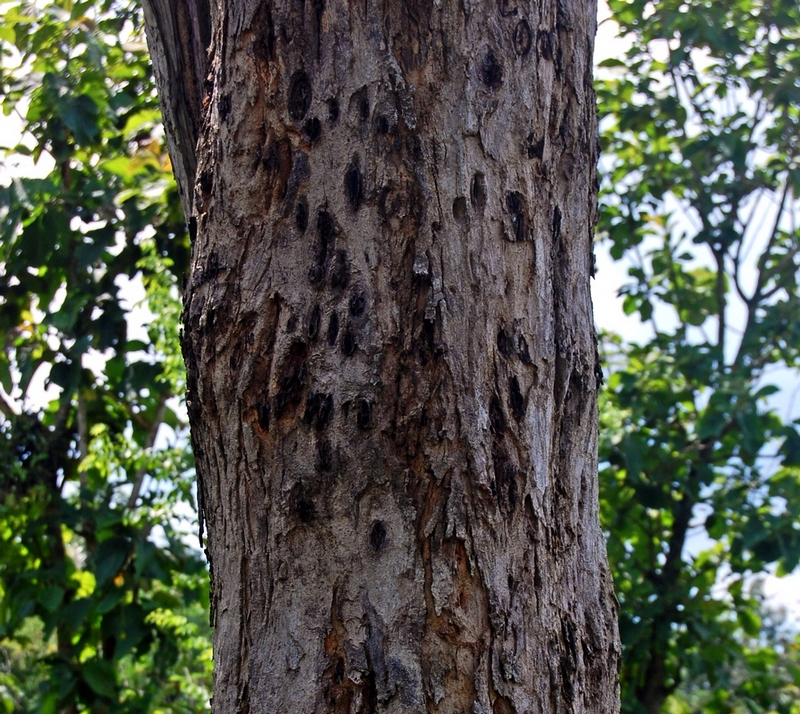 Dalbergia latifolia bark. Banyumas, Central Java, Indonesia.